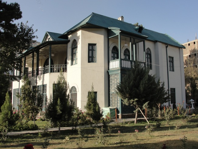 The National Gallery of Afghanistan.